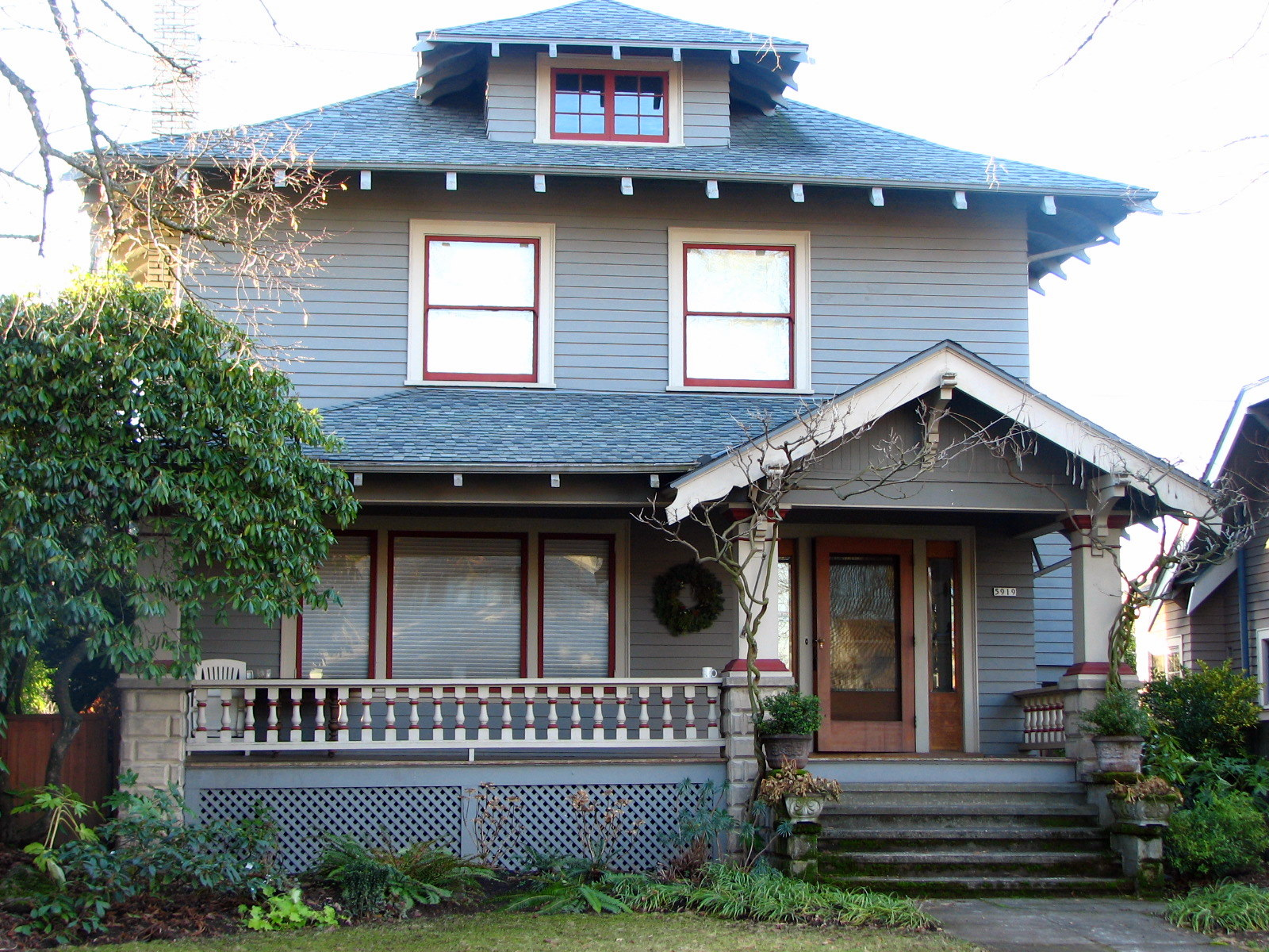 The historic Henry C. and Wilhelmina Bruening House, located at 5919 North Williams Avenue in Portland, Oregon, United States, is listed on the US National Register of Historic Places.